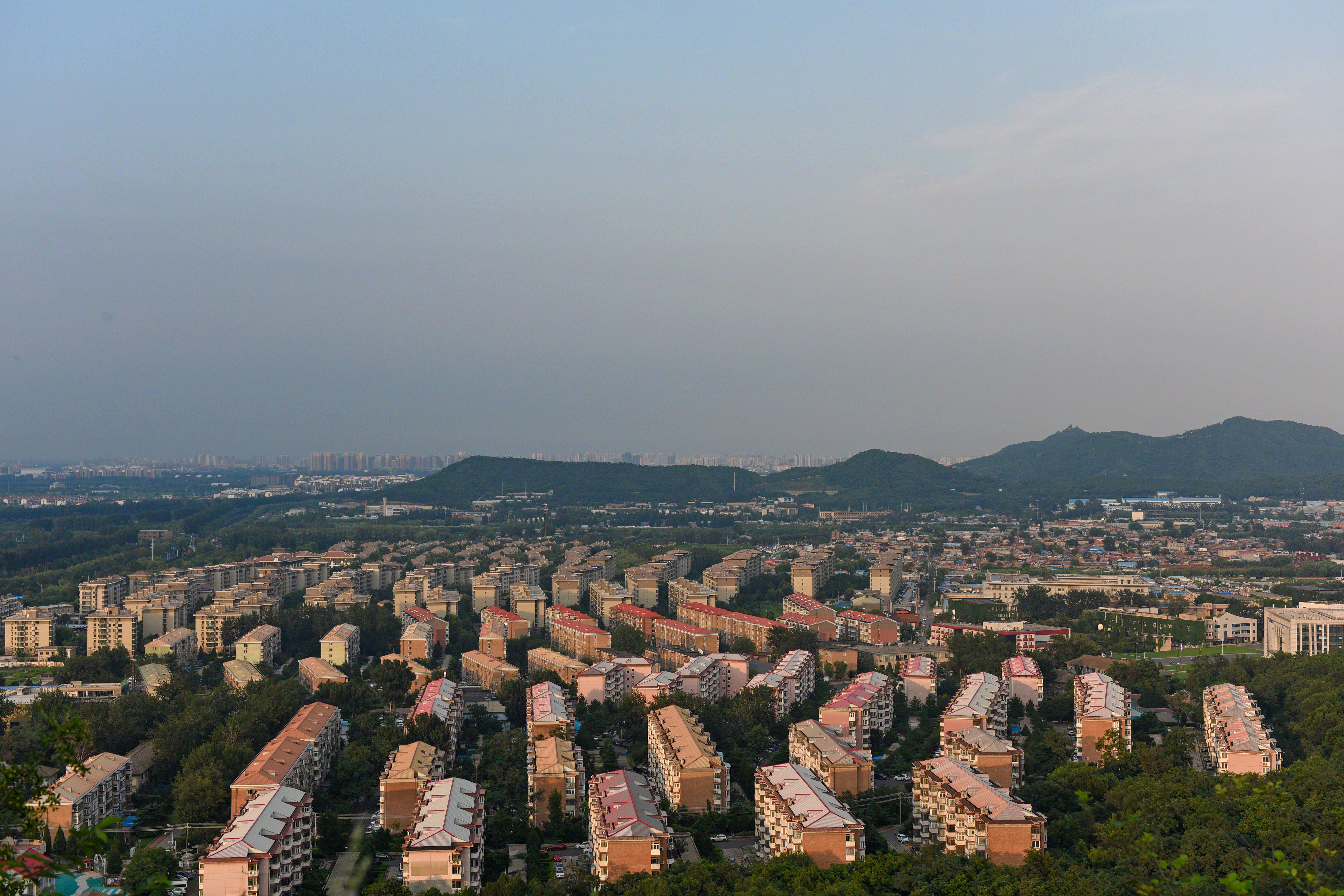 Lit. "cold spring".